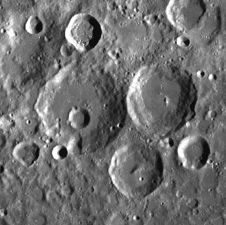 Zhukovskiy crater at the left center part of the image